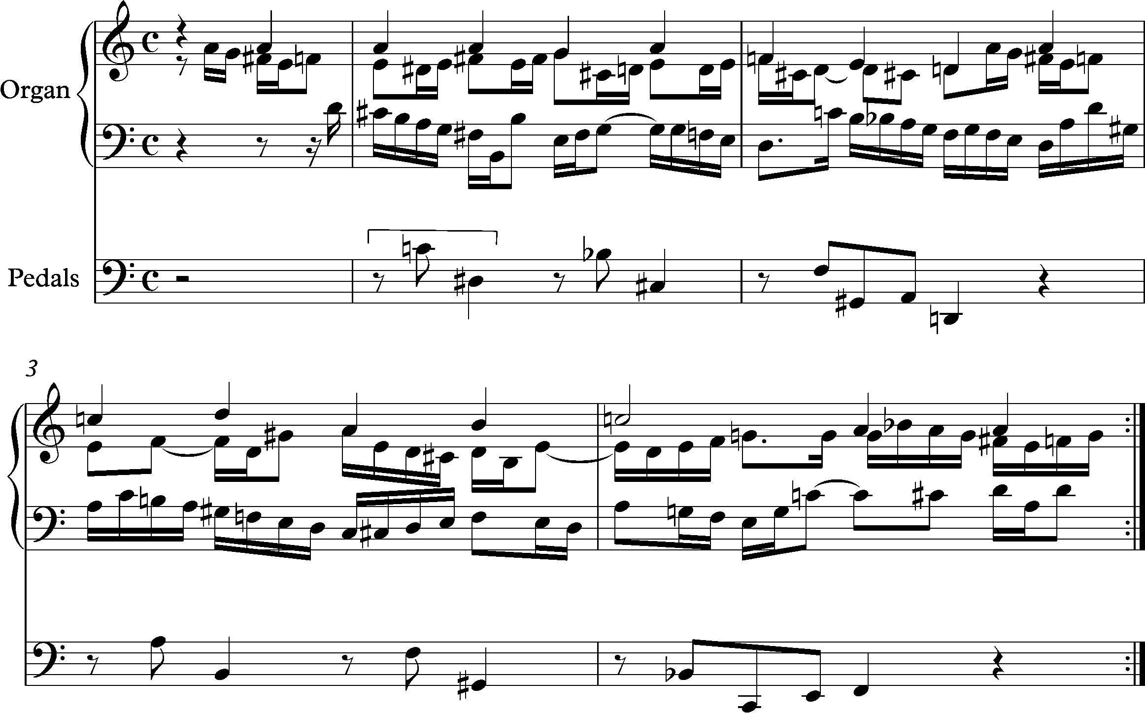 J.S.Bach, "Durch Adam's Fall" from Orgelbuchlein